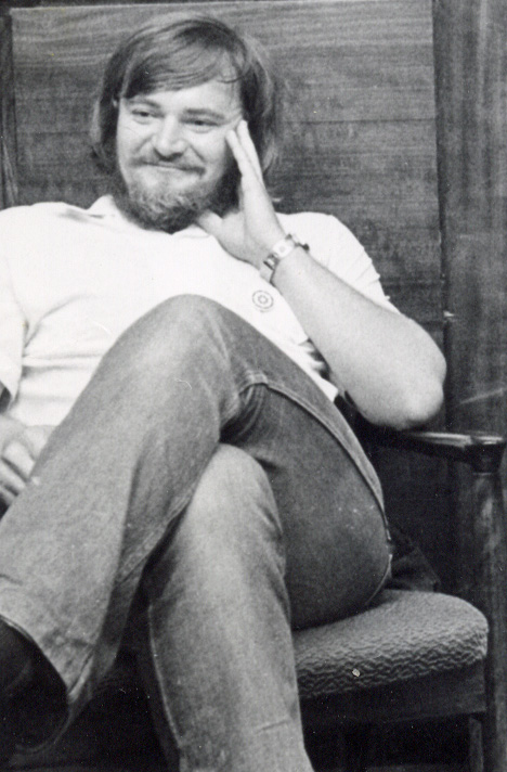 Andrzej Samson - psycholog na studenckim obozie w Chłapowie dla studentów z nerwicami w 1978 roku